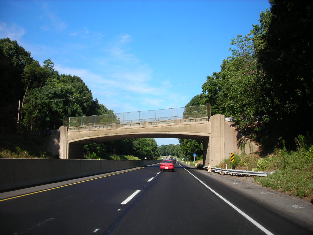 Interstate 76 - Pennsylvania westbound in Lebanon County